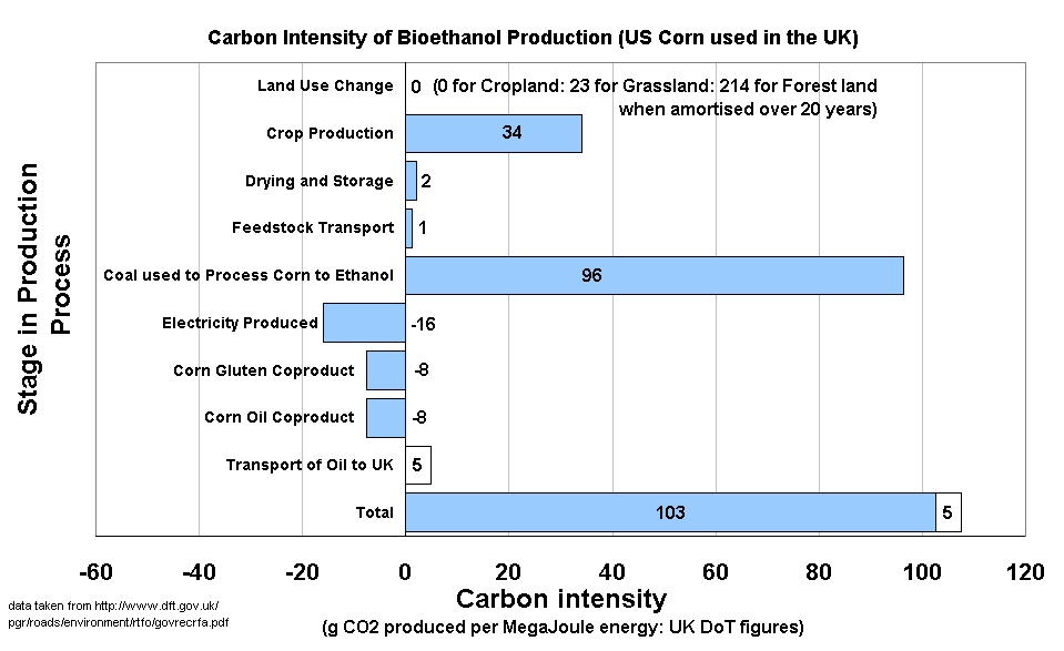 Excel Graph showing the Carbon Intensity of US Corn Bioethanol. Derived from information found in the UK crown copyright document.[1]